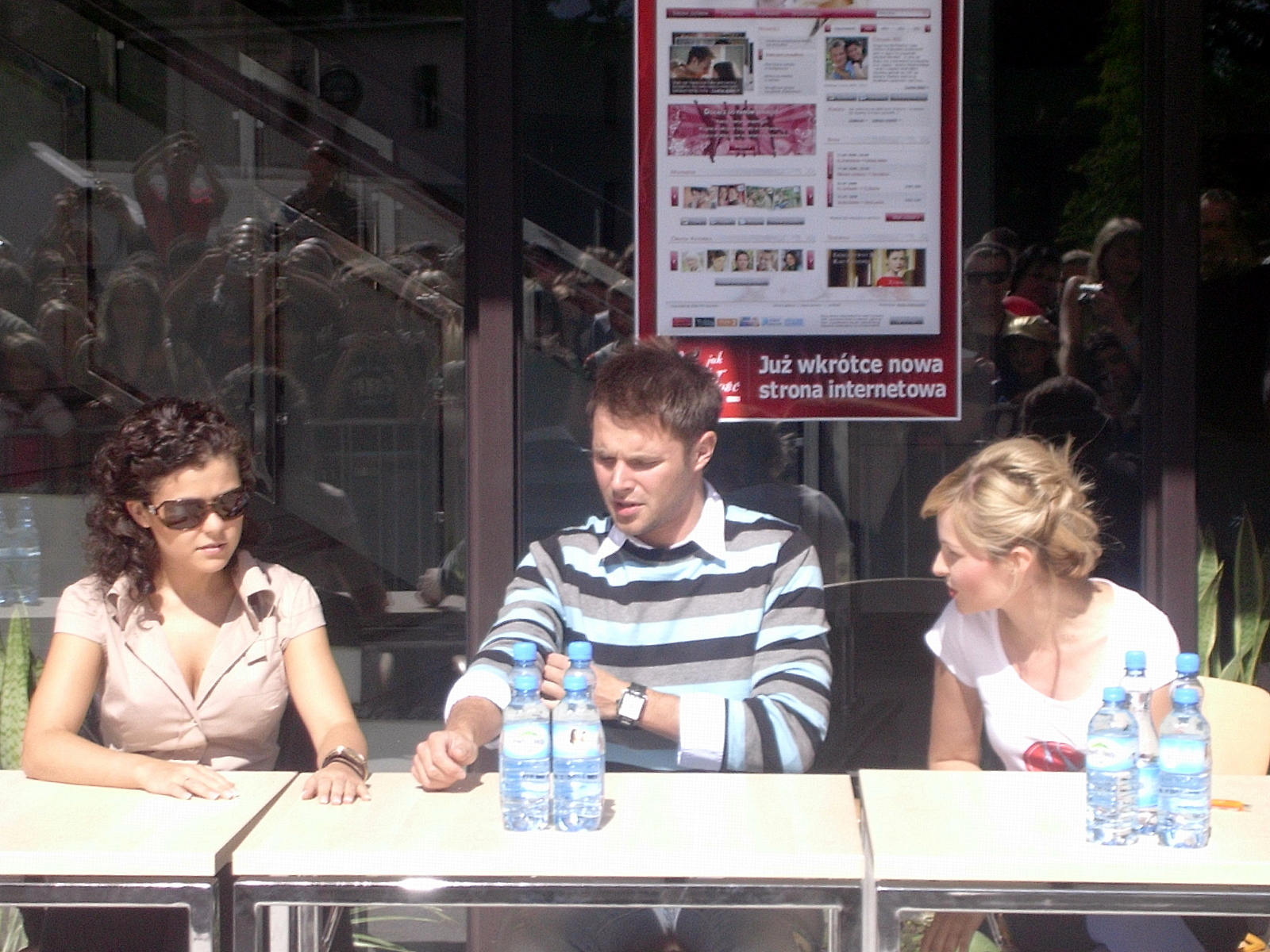 Meeting of fans of the Polish series "M jak miłość" ("L for love") in Bydgoszcz near to Opera Nova.